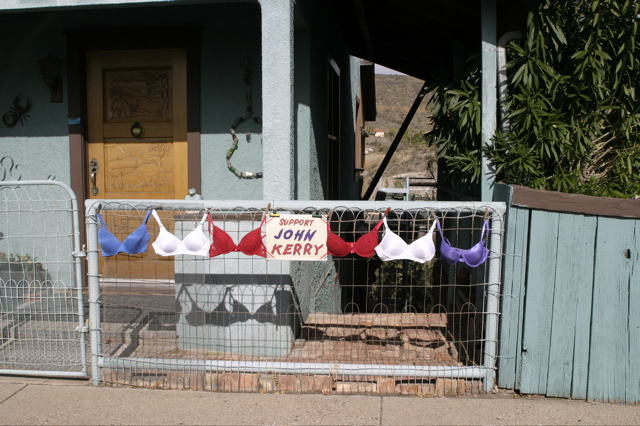 Object: Support for election campaign of John Kerry, here at a residence in Arizona Source: self Photographer: Nils Fretwurst Date: 2004